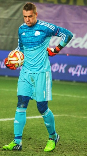 Stefanos Kotsolis